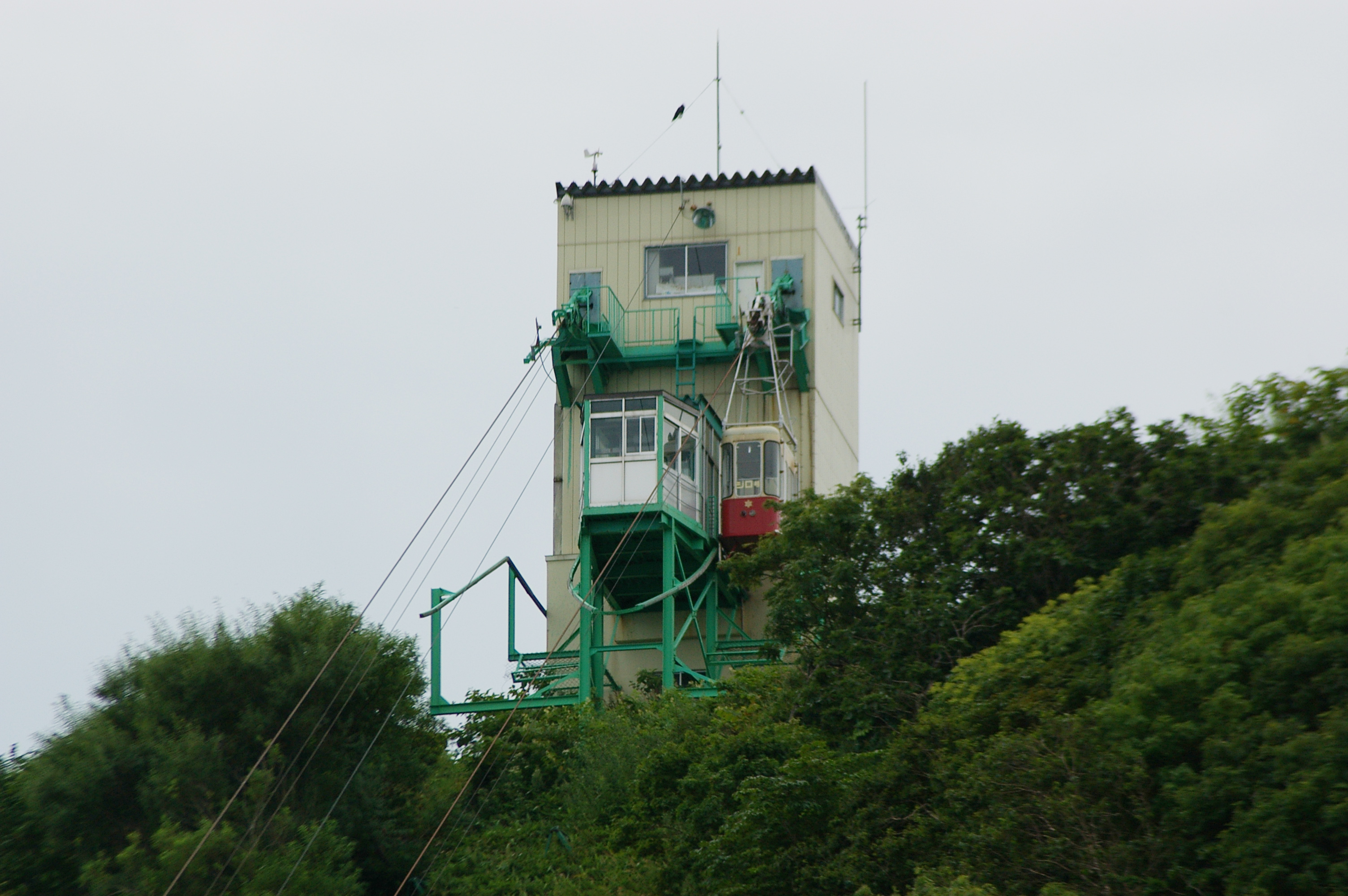 The Wakkanai park rope way, Summit station & JIRO.